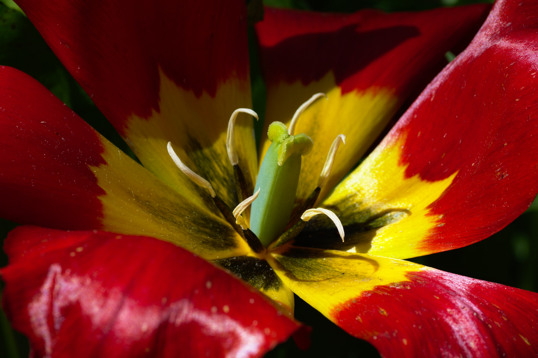 Official flower for the Turku, European Capital of Culture 2011